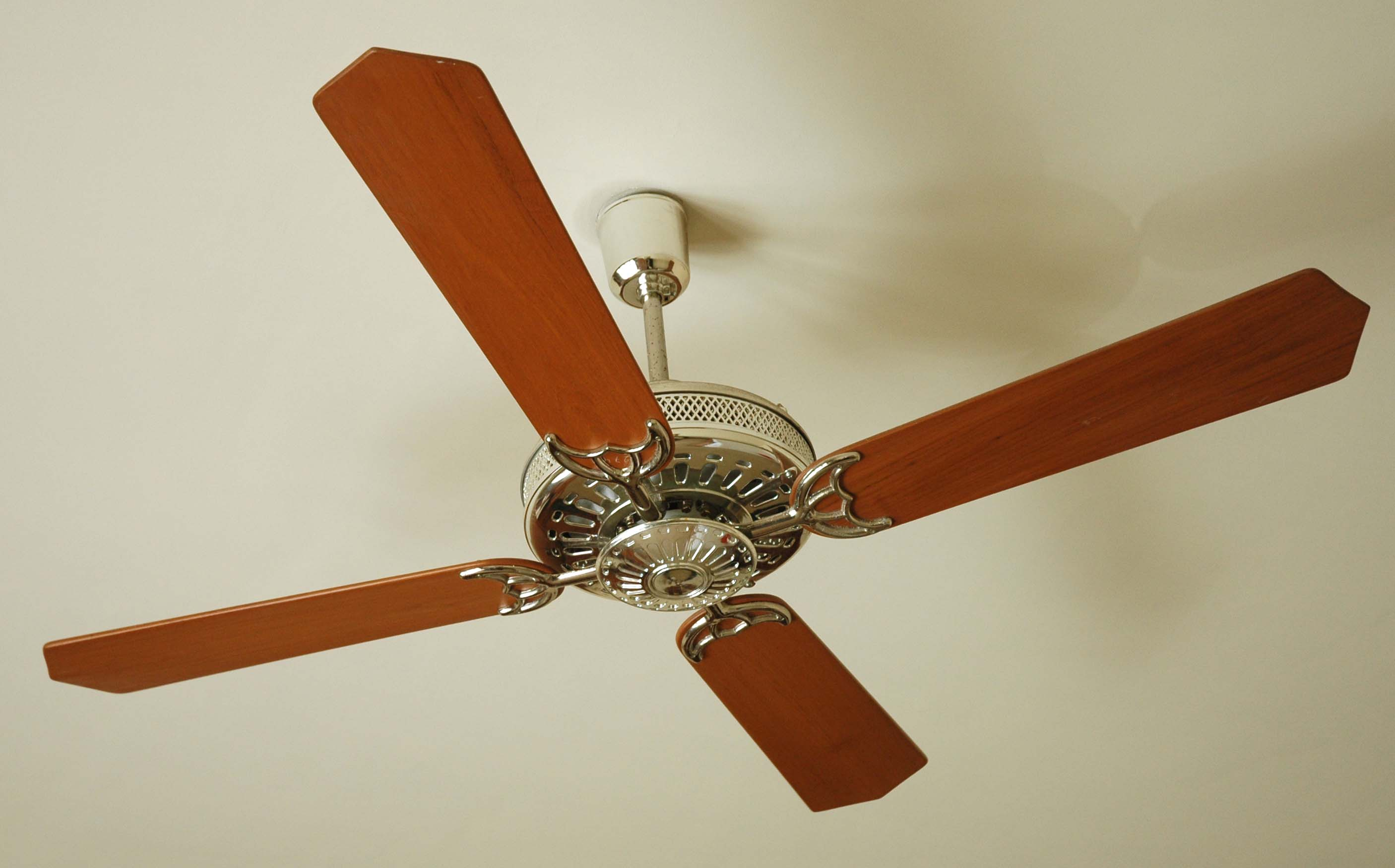 Ceiling fan (photo taken in an hotel in India)